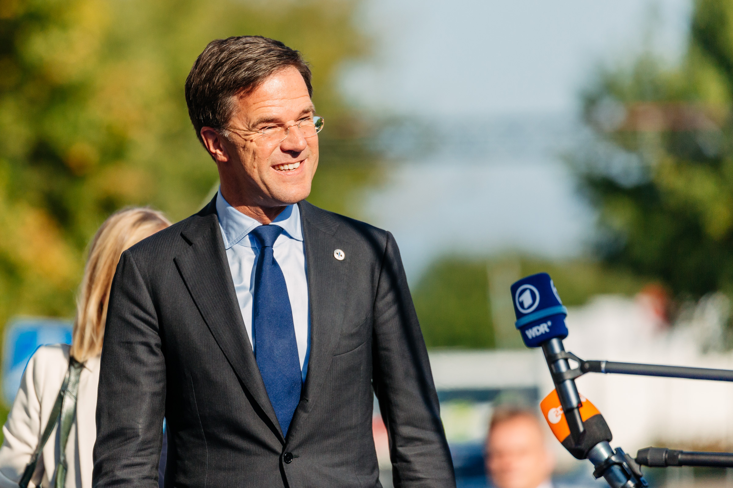 Mark Rutte, Prime Minister, The Netherlands Photo: Arno Mikkor (EU2017EE)